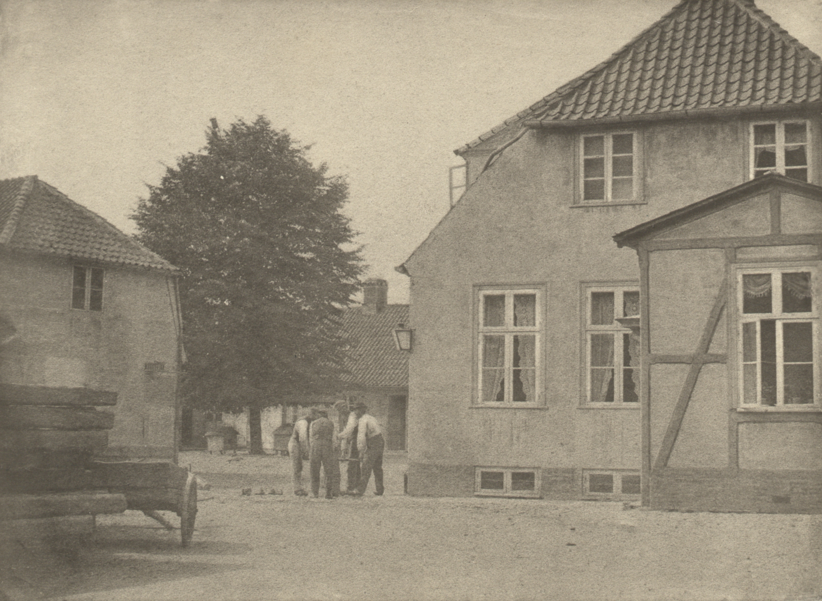 Property at the corner of Vesterbrogade (No. 9) and Tømmerpladsvej in Copenhagen, Denmark. It was owned by timber merchant A. Callstrop.